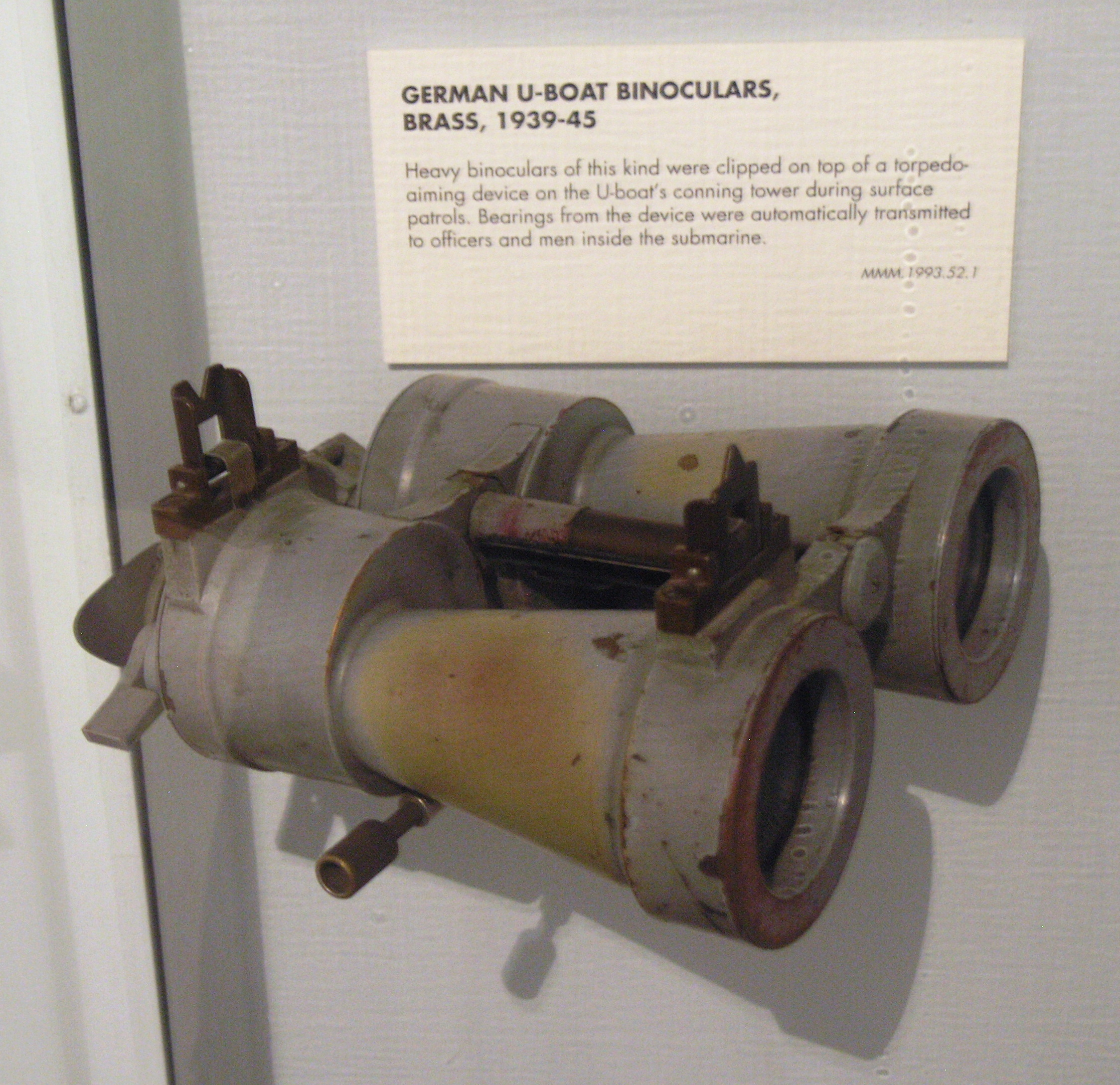 German U.D.F. 7×50 U-boat binoculars (1939-1945). The 7x50 UDF binoculars were made of heavy 464 navalbrass to help prevent corrosion from salt water and could be submerged to 300 m. They weigh about 6 kg. The right prism cover, has a lever, that controls the day/night filtersystem. On the Conning Tower of every U-boat was a device known as the U.Z.O. (Uberwasser - Ziel – Optik) which took the form of a pedestal,graded in degrees around its top and with an attachment bracket to which a pair of heavy duty U.D.F. 7×50 binoculars could be fitted. The U.Z.O. was linked to the U-boat's central attack computer in the commander's battle station,transmitting targeting data as the binoculars were trained on the target. Merseyside Maritime Museum